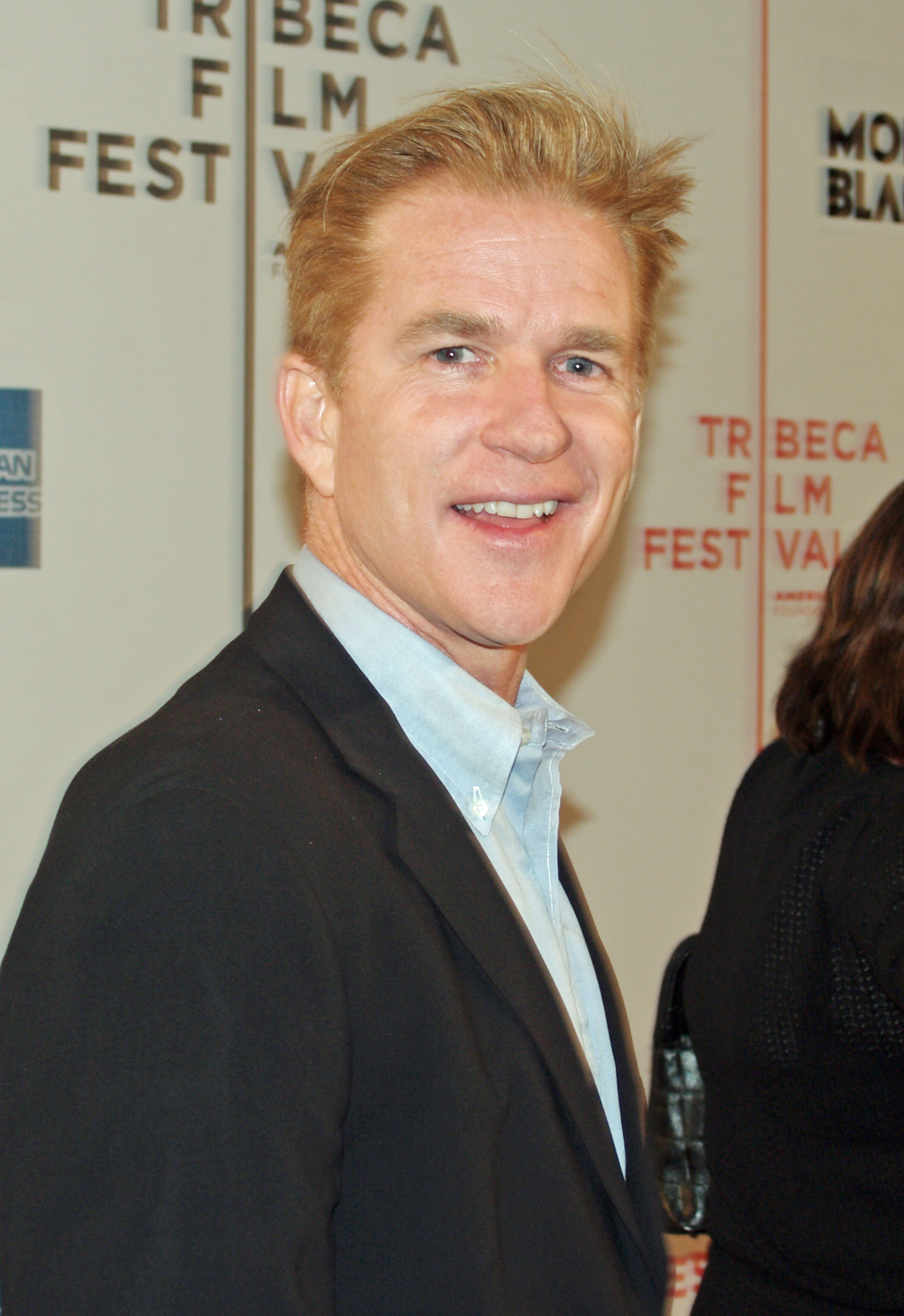 Matthew Modine at the premiere of Savage Grace at the 2008 Tribeca Film Festival.The photographer dedicates this portrait to Wikipedia editor Jfdwolff, who has improved one of the most challenging areas of Wikipedia for the layman to improve: medical articles. The project would be far worse off without his expertise.